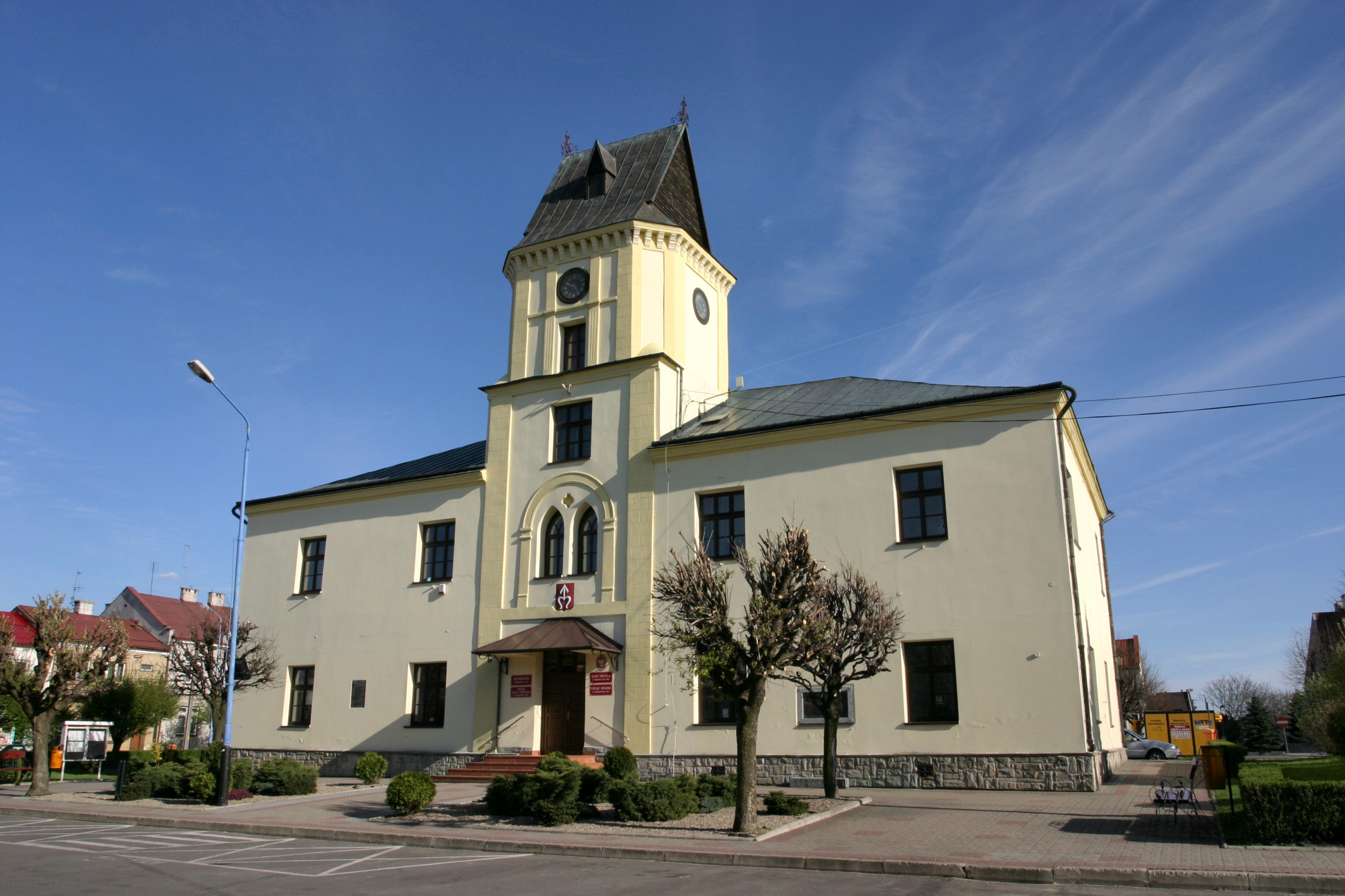 Town Hall in Sędziszów Małopolski, Poland